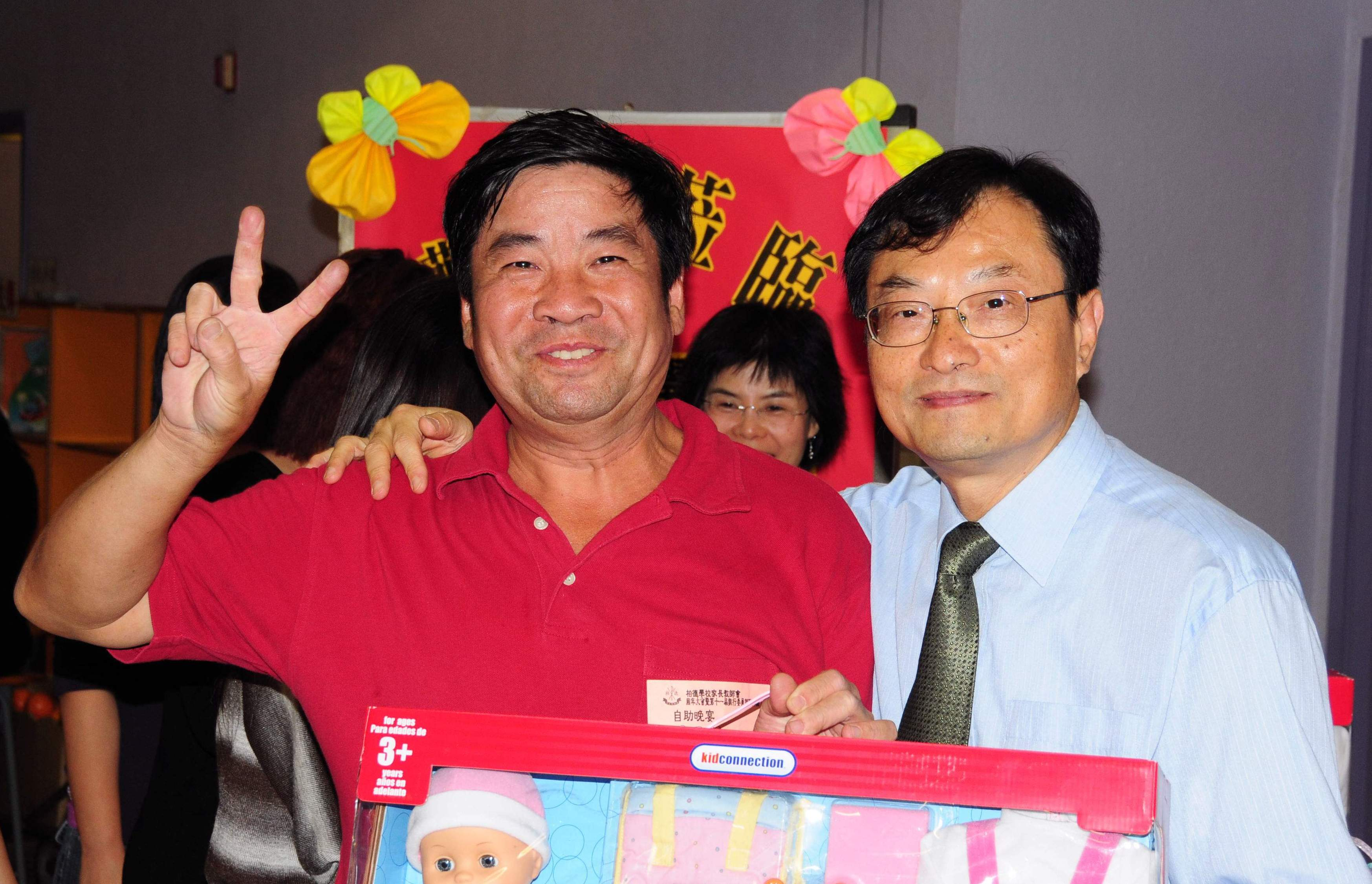 Mr Lee Bing Hing, ex-headmaster of Bishop Paschang Catholic School and Bishop Paschang Memorial School with Uncle Fai (Mr Ng Kwok Fai)